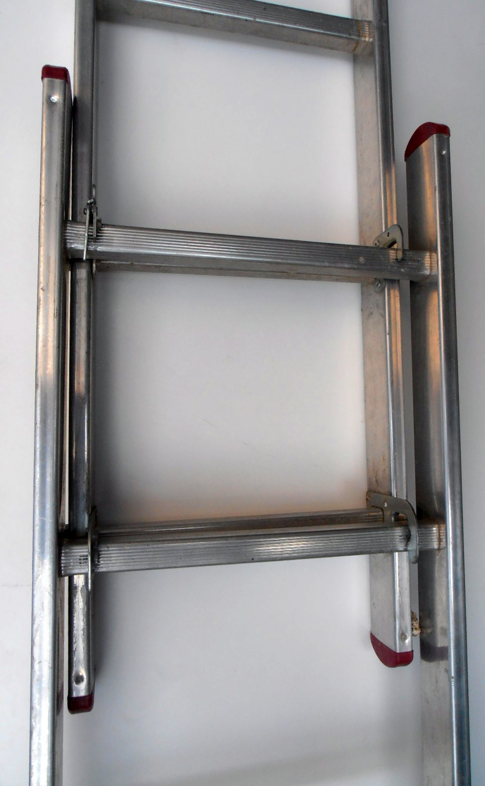 Two parts of a Sectional ladder joined